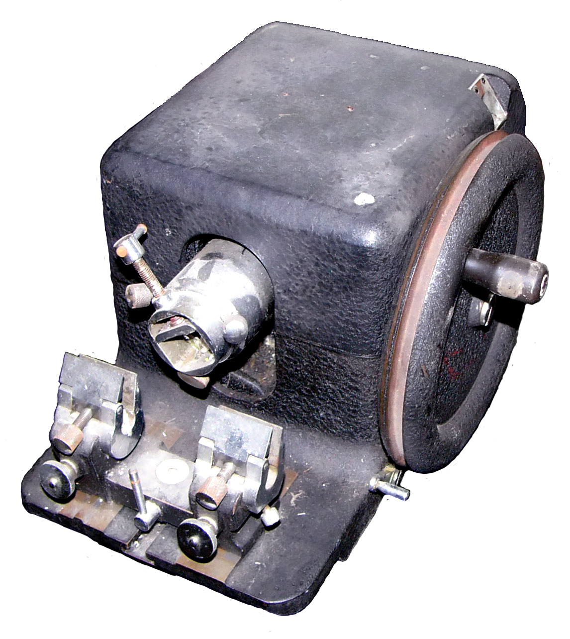 An older mechanical microtome.